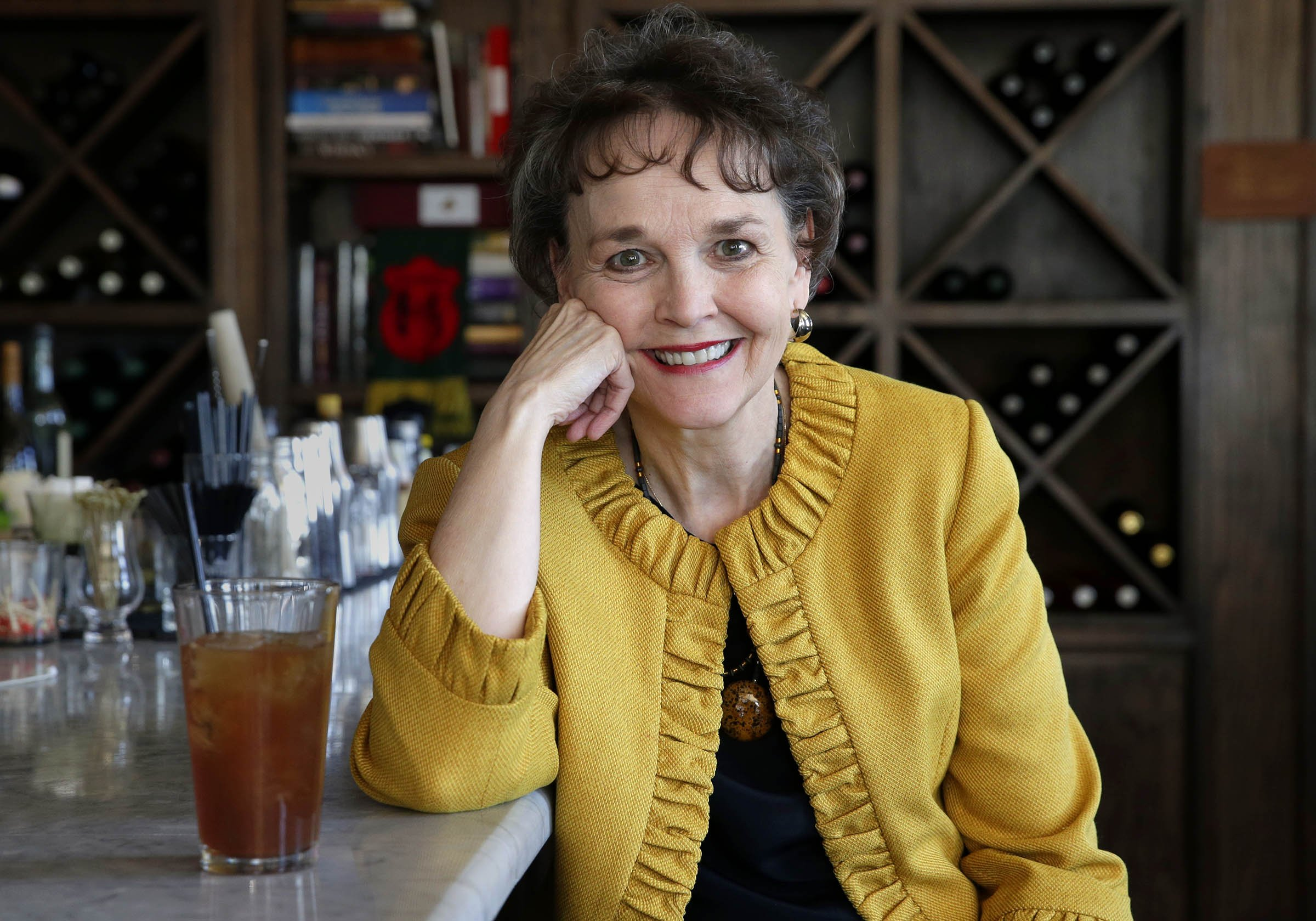 Teresa Miller, author